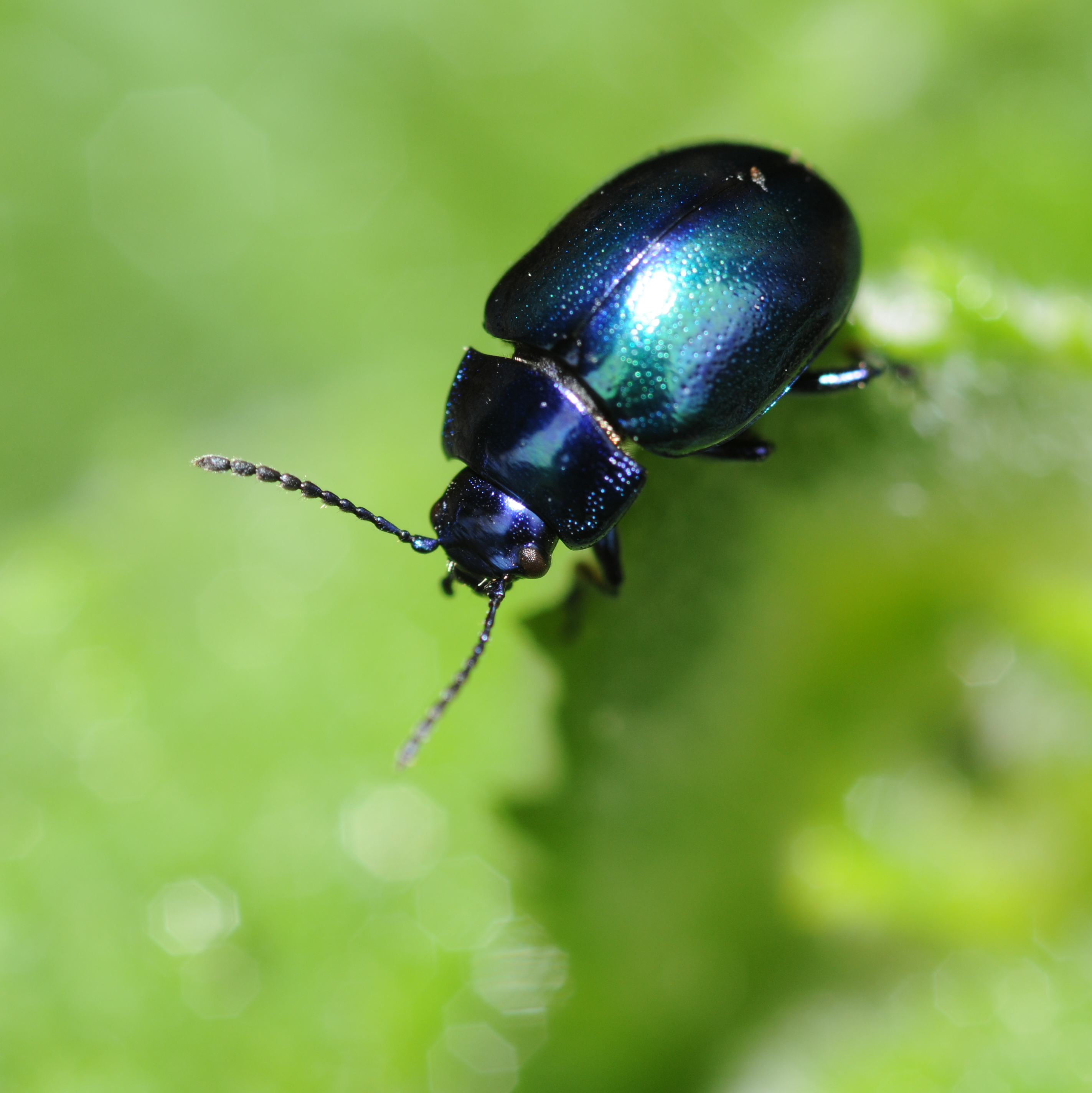 Chrysomèle sur de la menthe (mentha sp.).